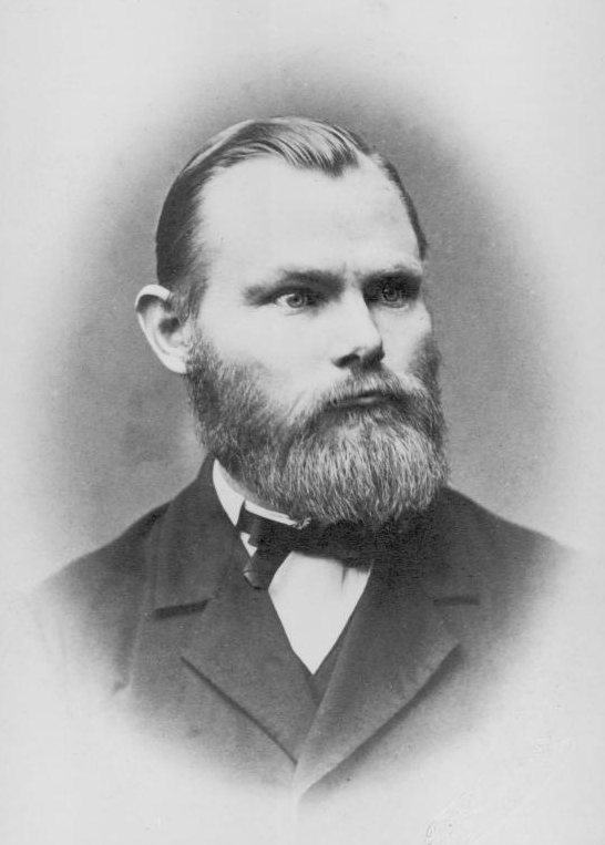 The American pianist of German descent Hermann Adolf Wollenhaupt (1827—1863)